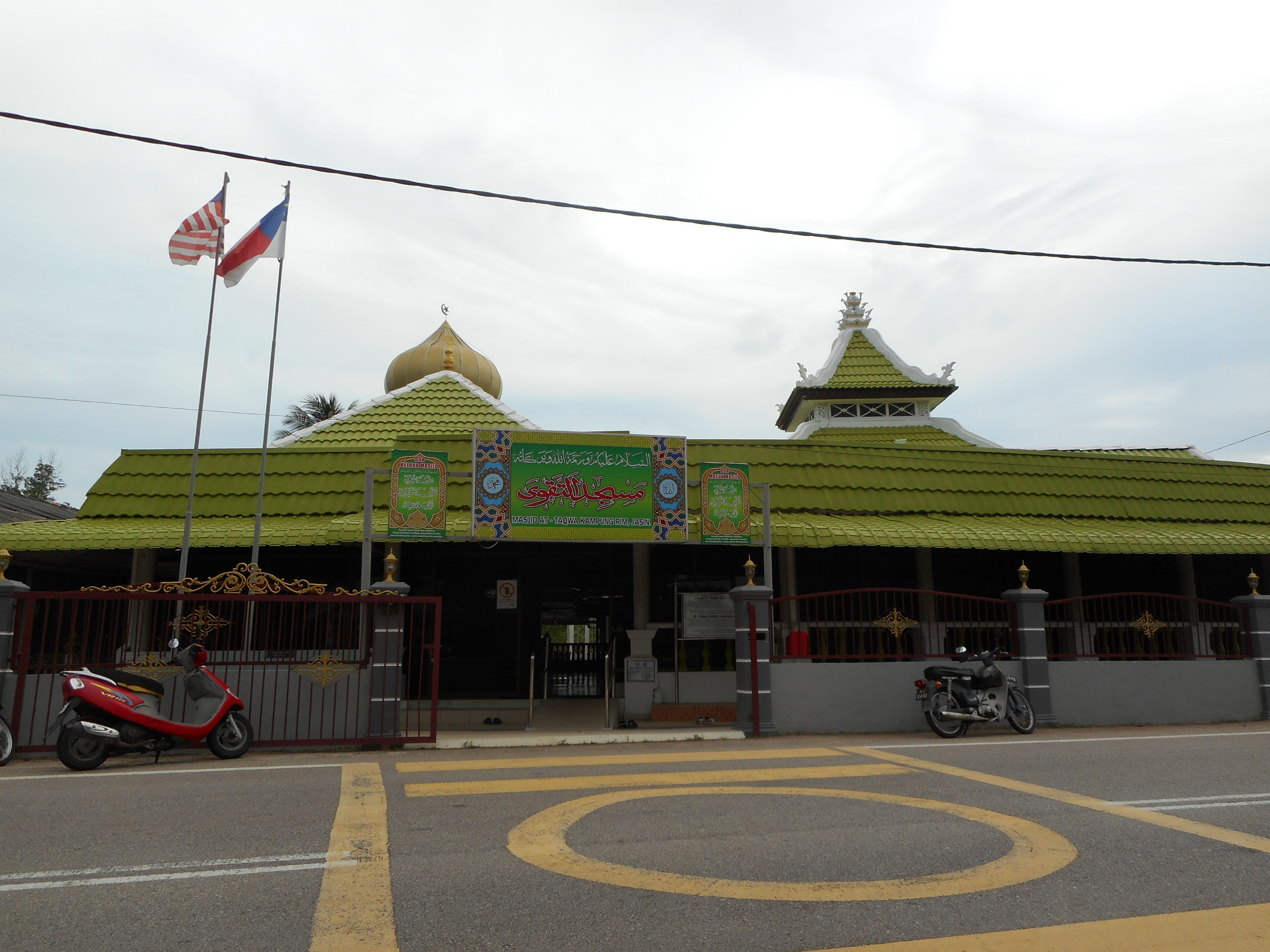 Rim Village At-Taqwa Mosque, Rim Village, Jasin, Malacca, Malaysia